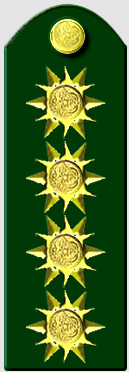 rank insignia of general (General) of the Colombian Army.